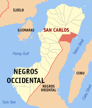 Map of Negros Occidental showing the location of San Carlos